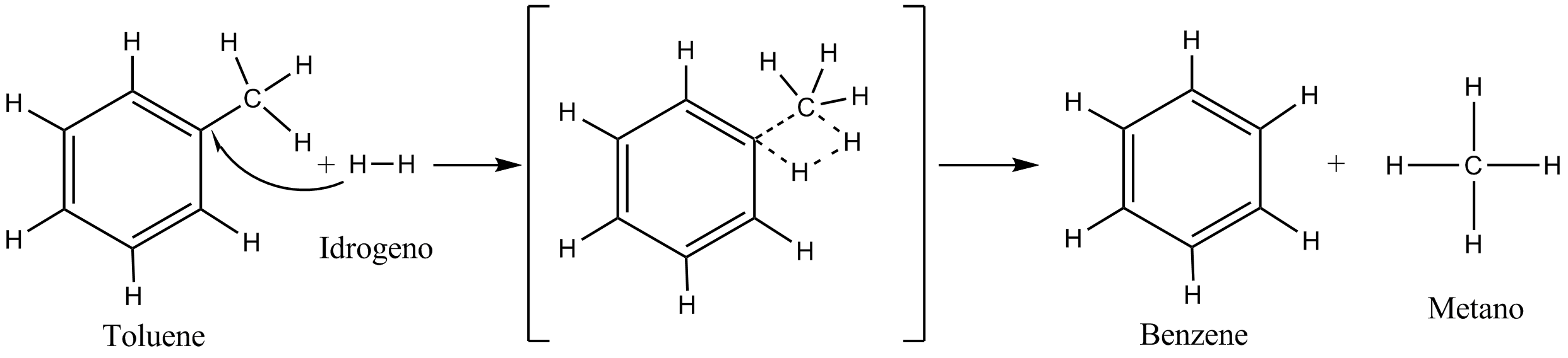 Toluene's hydrodealchilation